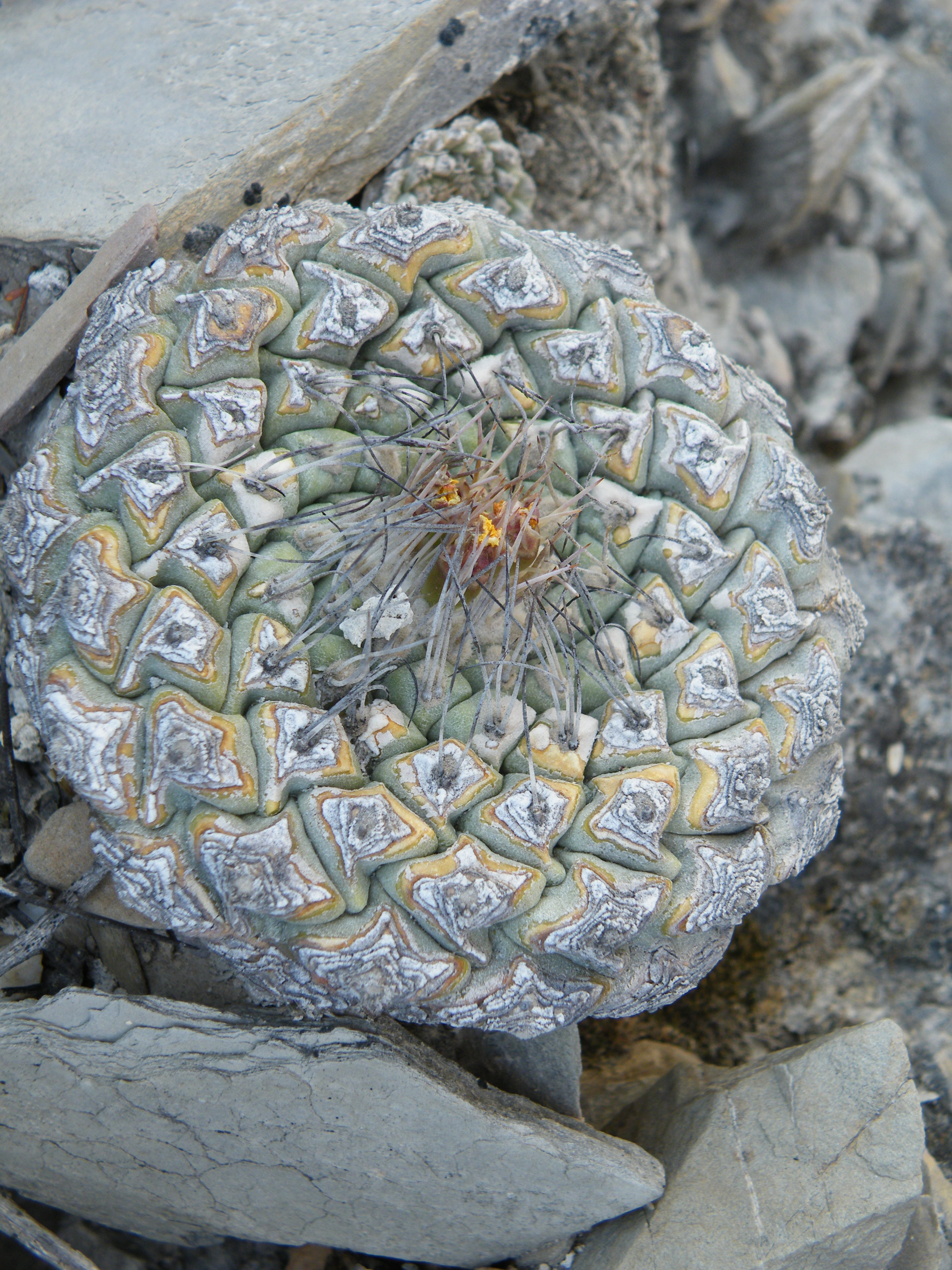 Strombocactus disciformis near Pena Blanca, Queretaro